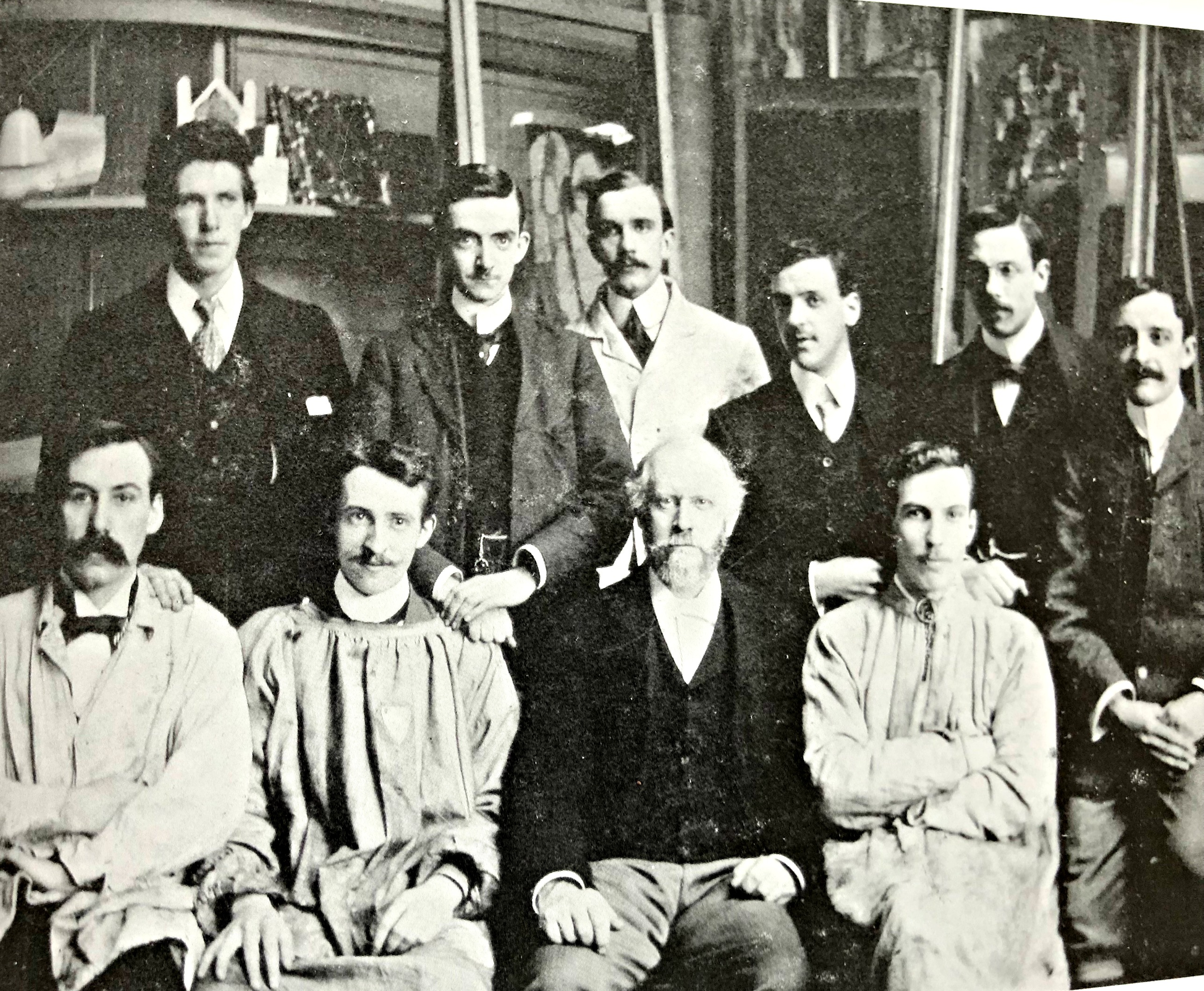 Christpher Whall, bottom row — third from left, with students of his stained glass art class at the Royal College of Art, London. 1902